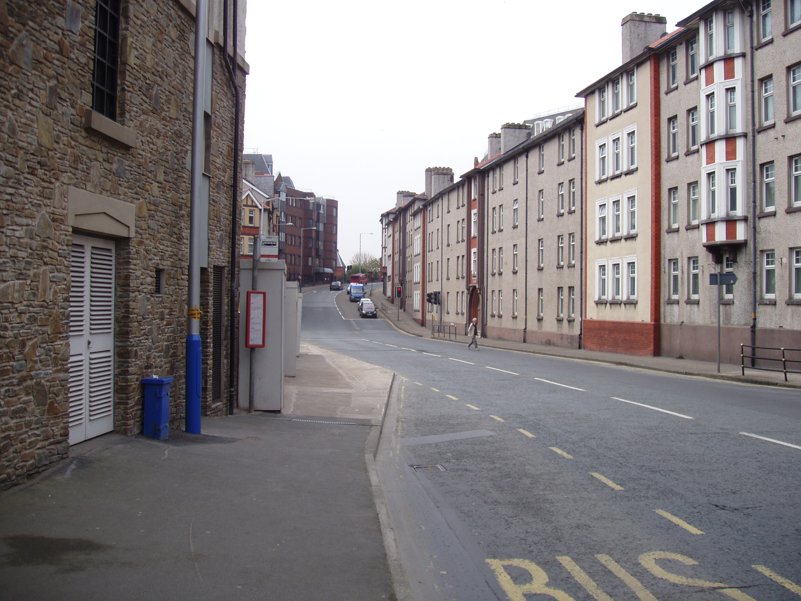 Picture of Lord Street in the financial district (downtown) of Douglas. This picture was taken on a Friday afternoon in April 2009.